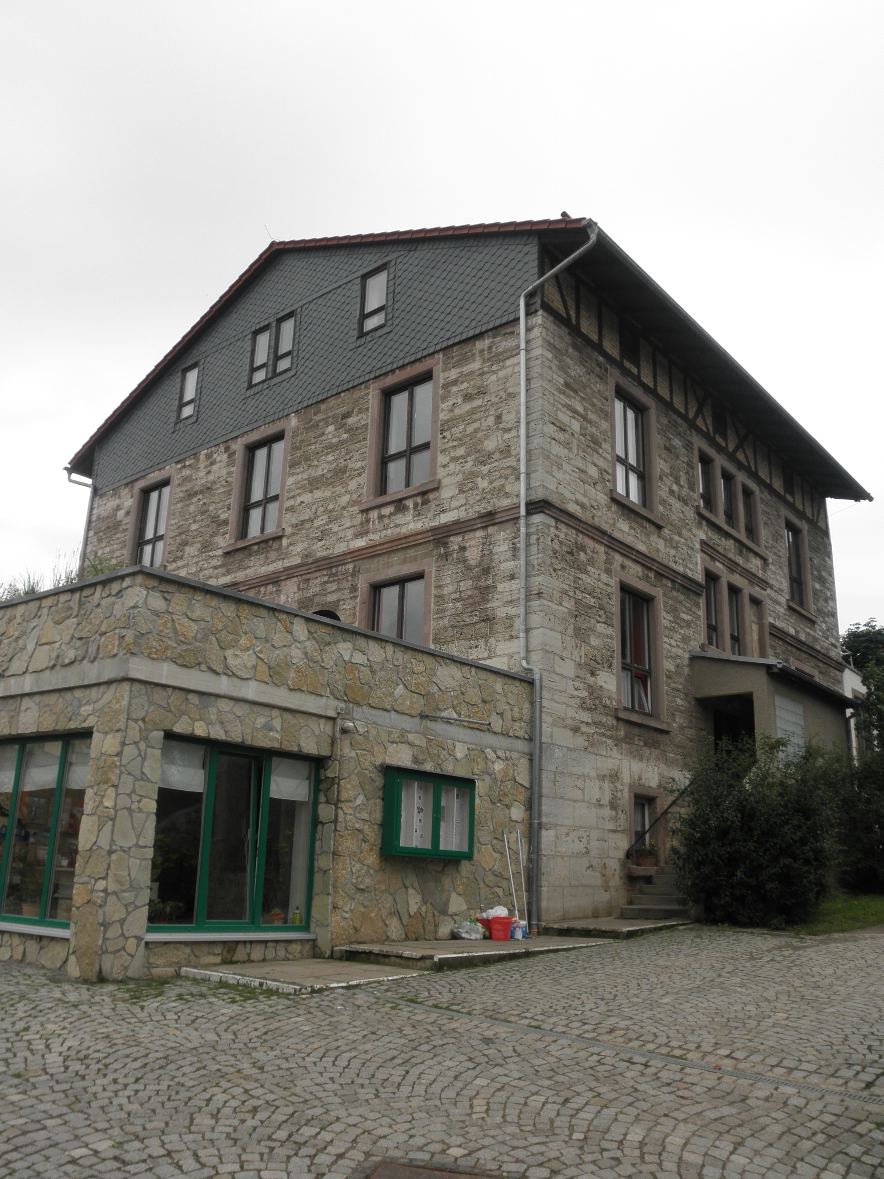 Manor House in Lützensömmern (Kutzleben) in Thuringia